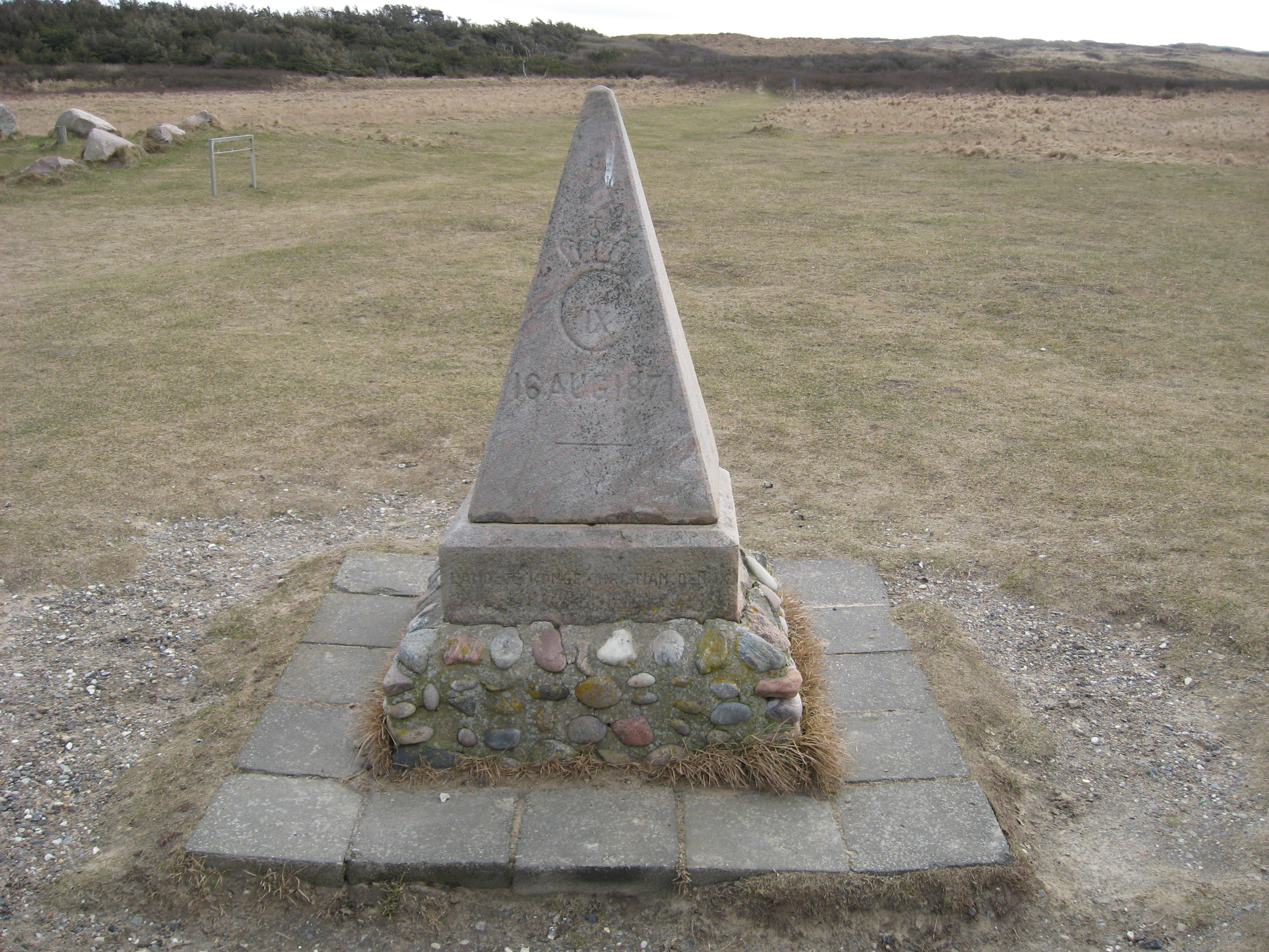 The memorial stone of Christian IX west of Maarup Church